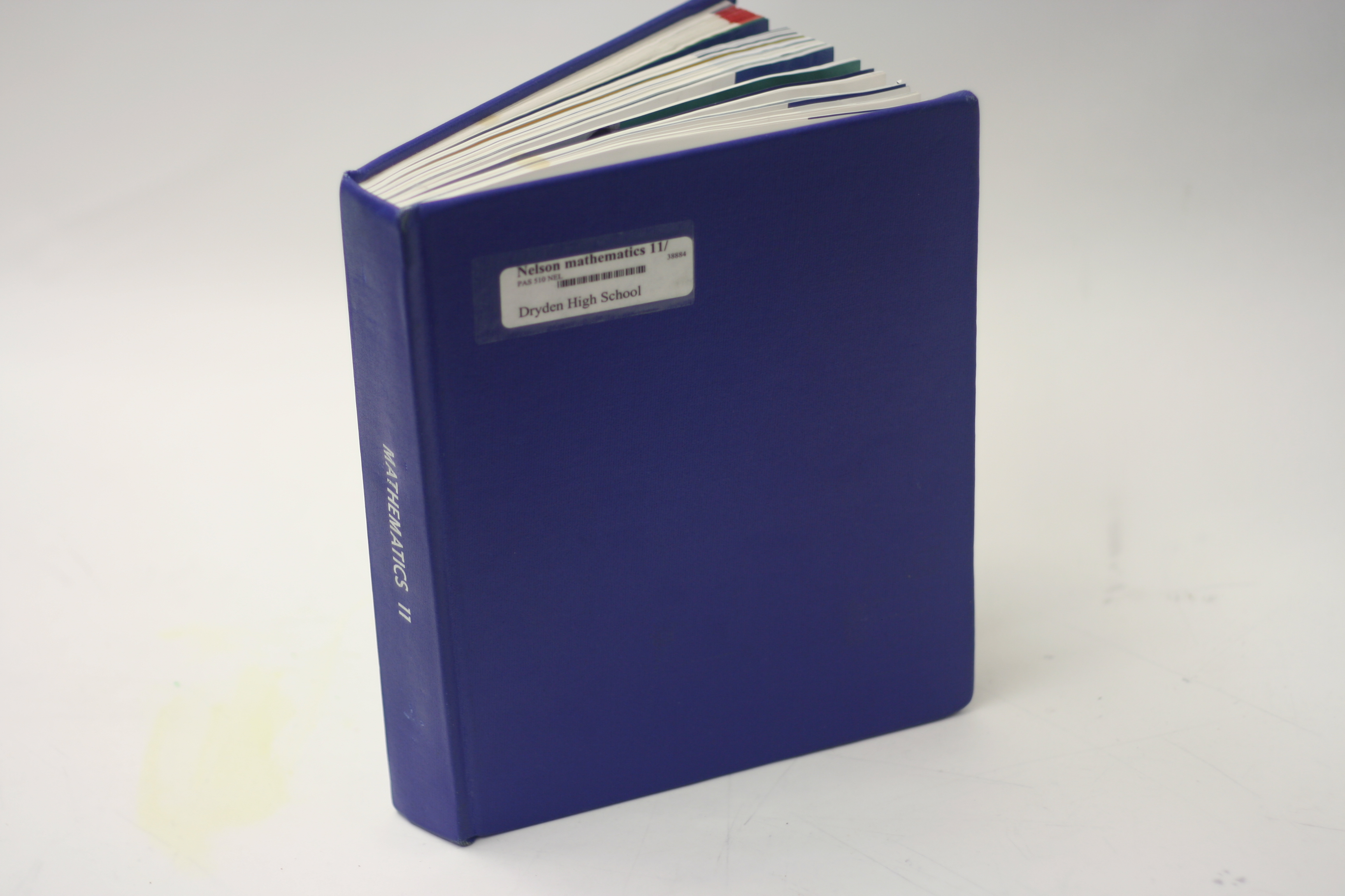 Textbook